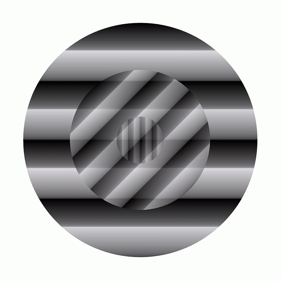 Diagram of Holy Trinity Core. Note: A pixel version of a diagram was originally made by Wikipedysta:Zureks to interpret Anne Catherine Emmerich's vision of the Holy Trinity core; it shows interpenetration between three cores of Three Persons of the Holy Trinity, where density is intended to increase towards the center.